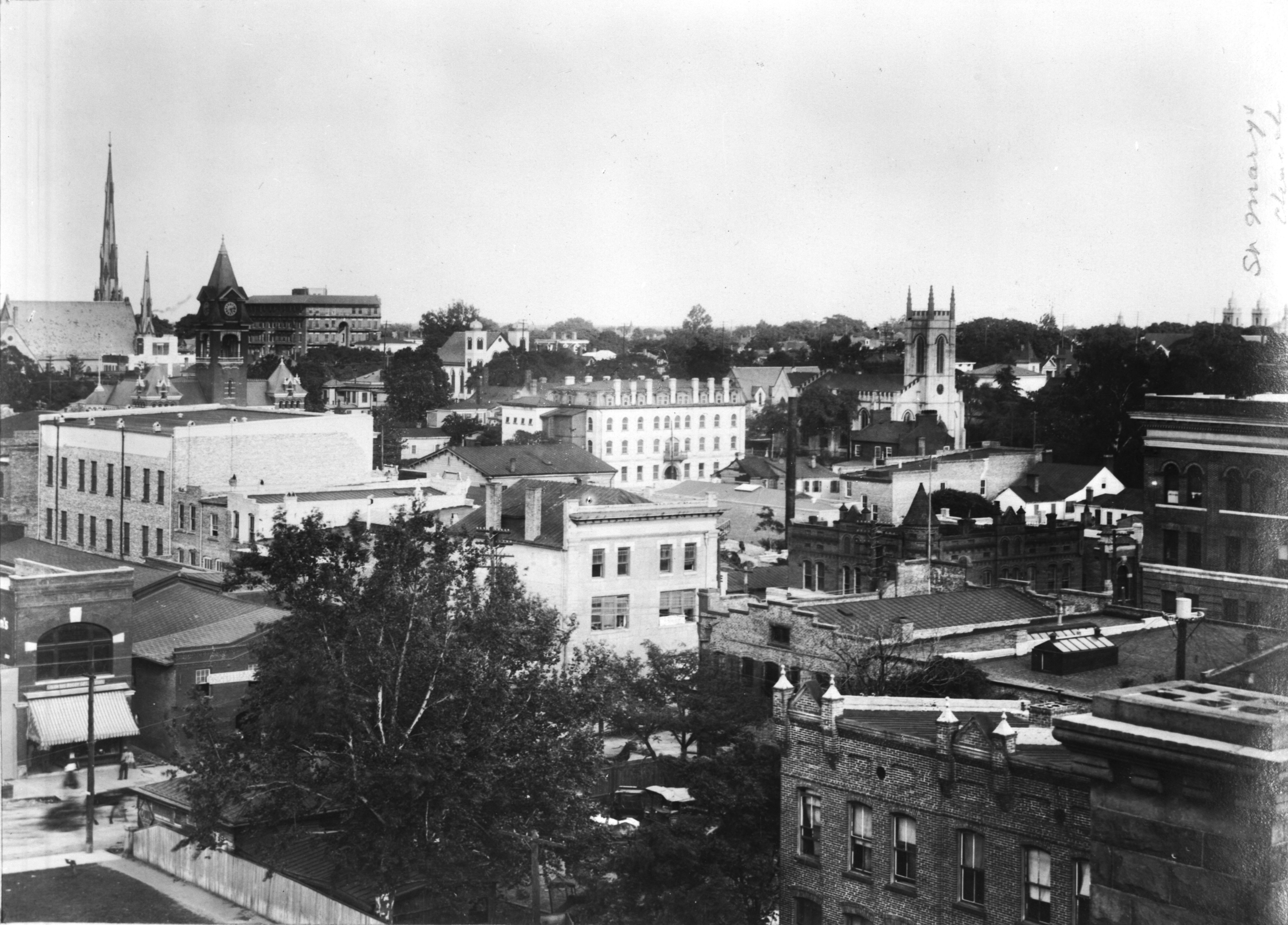 From the General Negative Collection, North Carolina State Archives, Raleigh, NC.